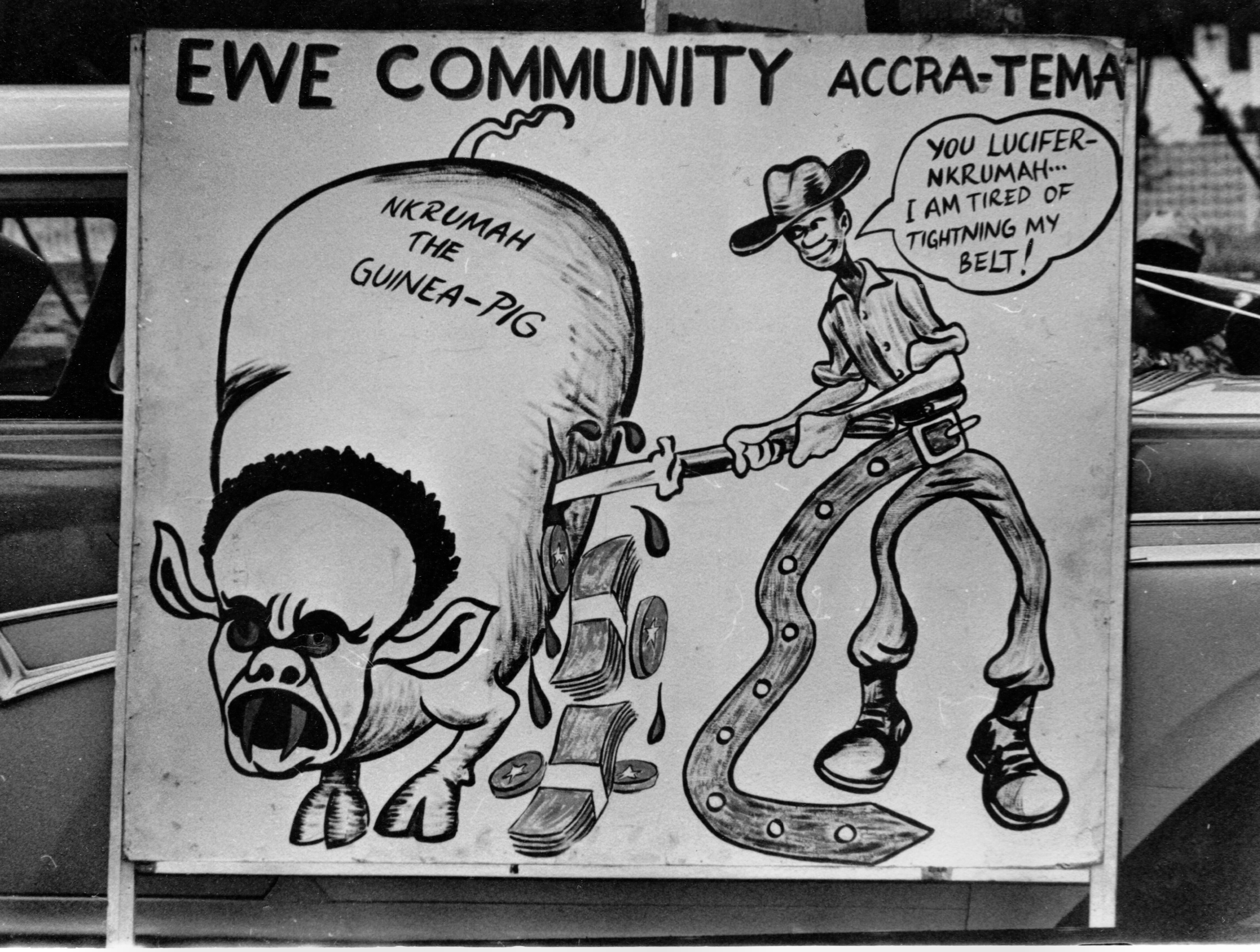 Placard at a demonstration in support of Nkrumah's overthrow.